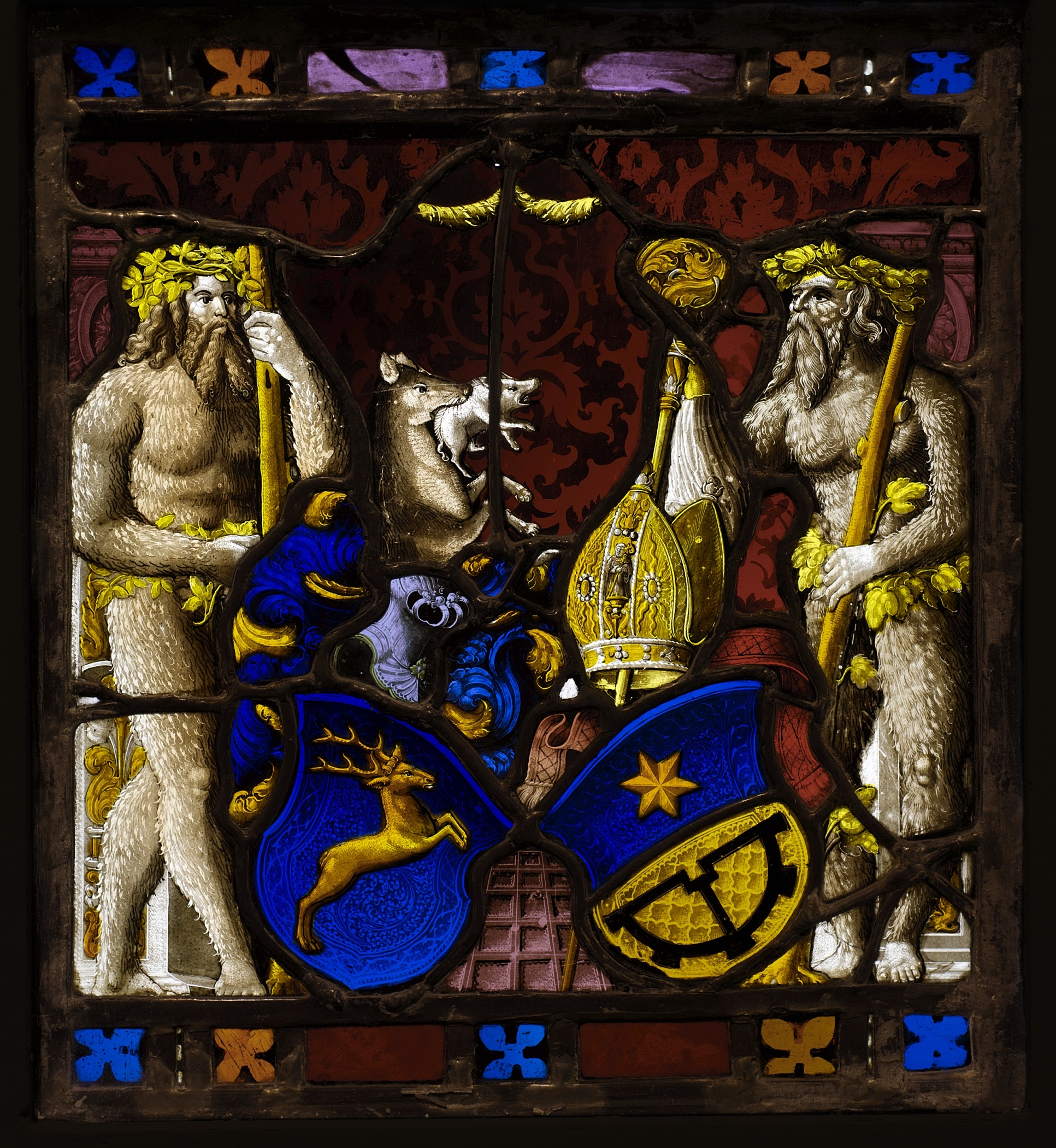 Southern Germany, St. Blasien Abbey, circa 1500-1525 Architecture; Architectural Elements Pot metal; white glass with silver stain; flashed and abraded glass Overall: 11 1/16 x 12 1/8 in. (28.8 x 30.0 cm) William Randolph Hearst Collection (45.21.21) Decorative Arts and Design